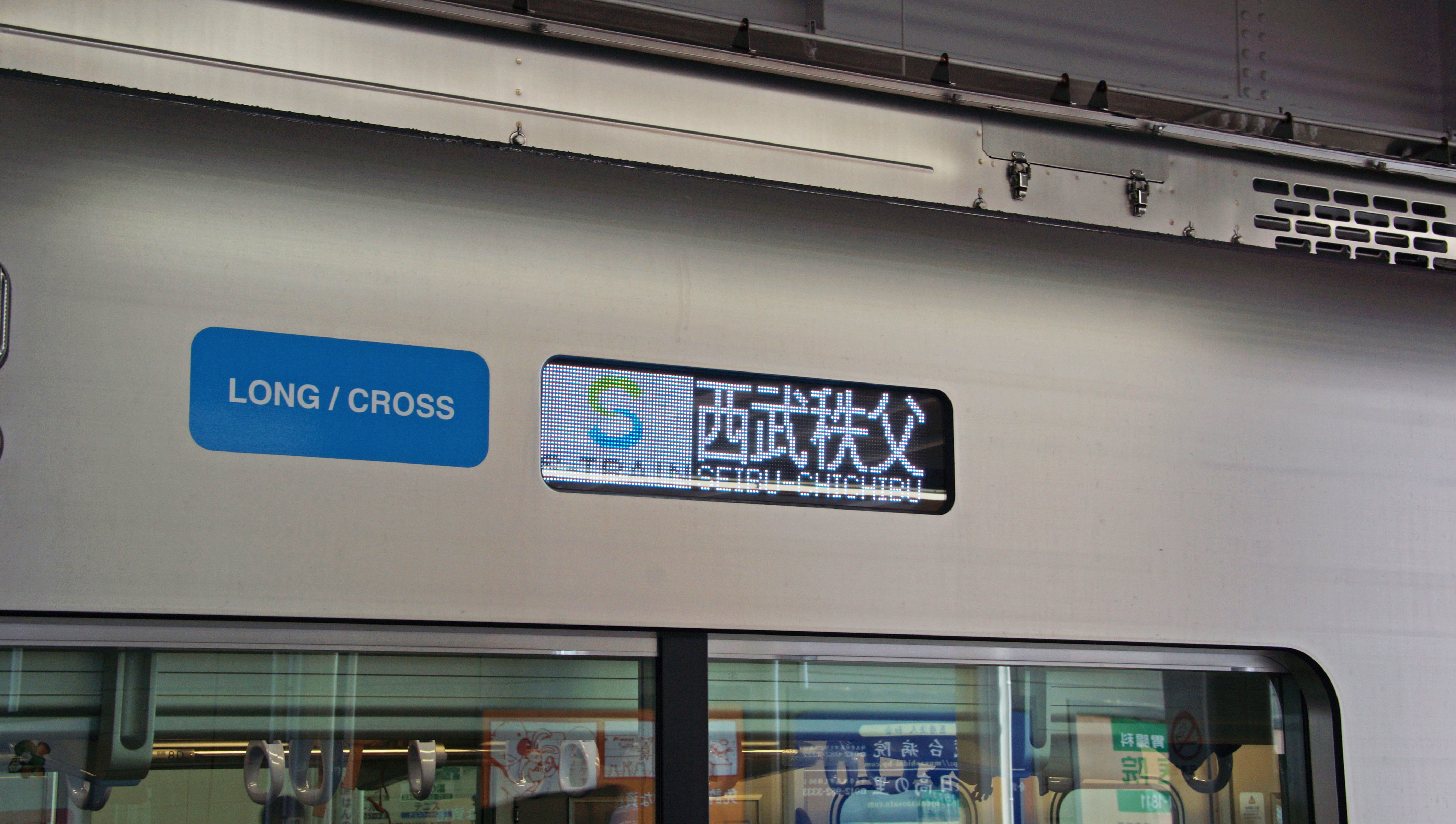 An LED destination indicator on the side of Seibu 40000 series EMU set 40101 at Hanno Station on the S-Train 1 service from Motomachi-Chukagai to Seibu-Chichibu